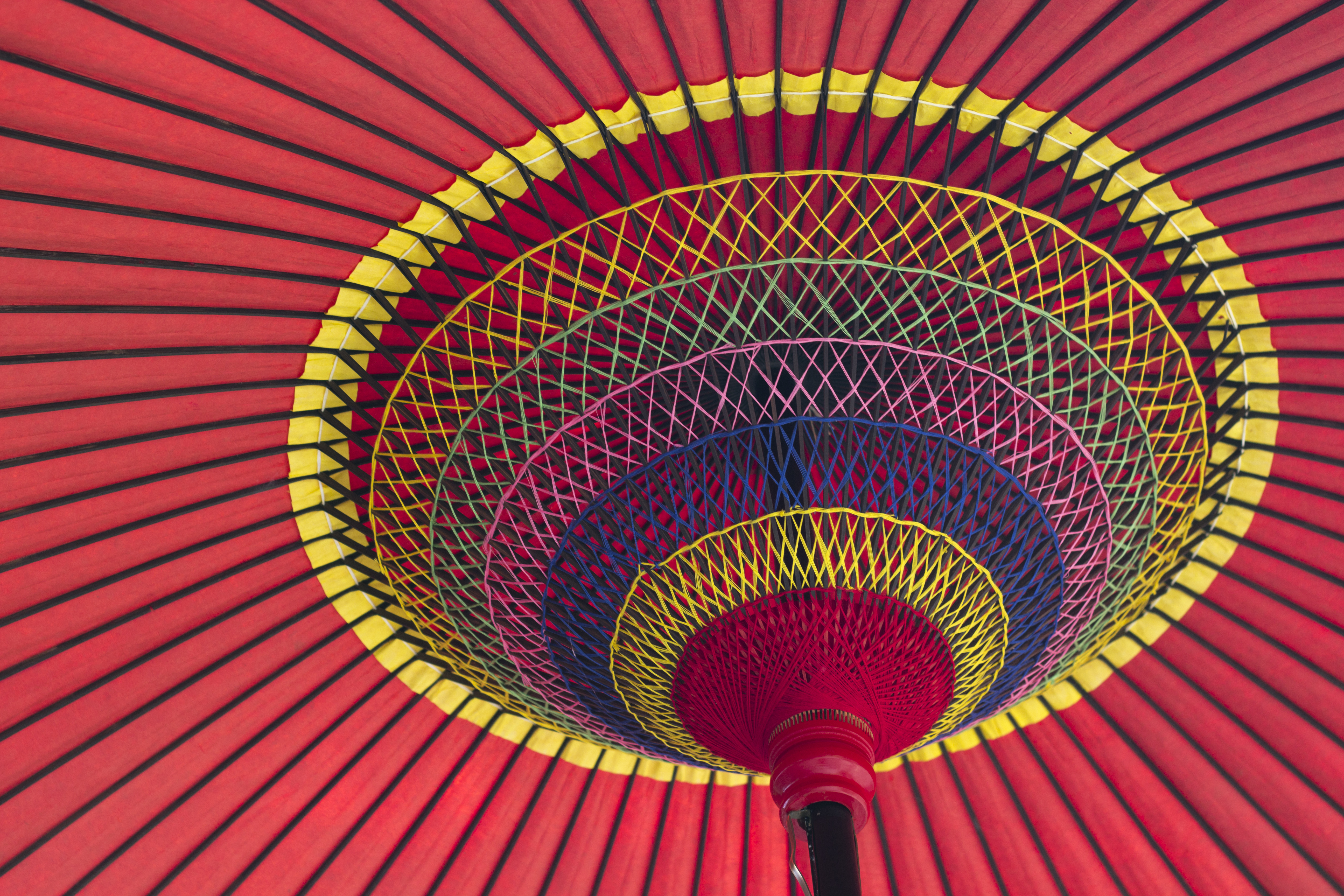 Japanese higasa (parasol/umbrella) on the grounds of Hikone castle